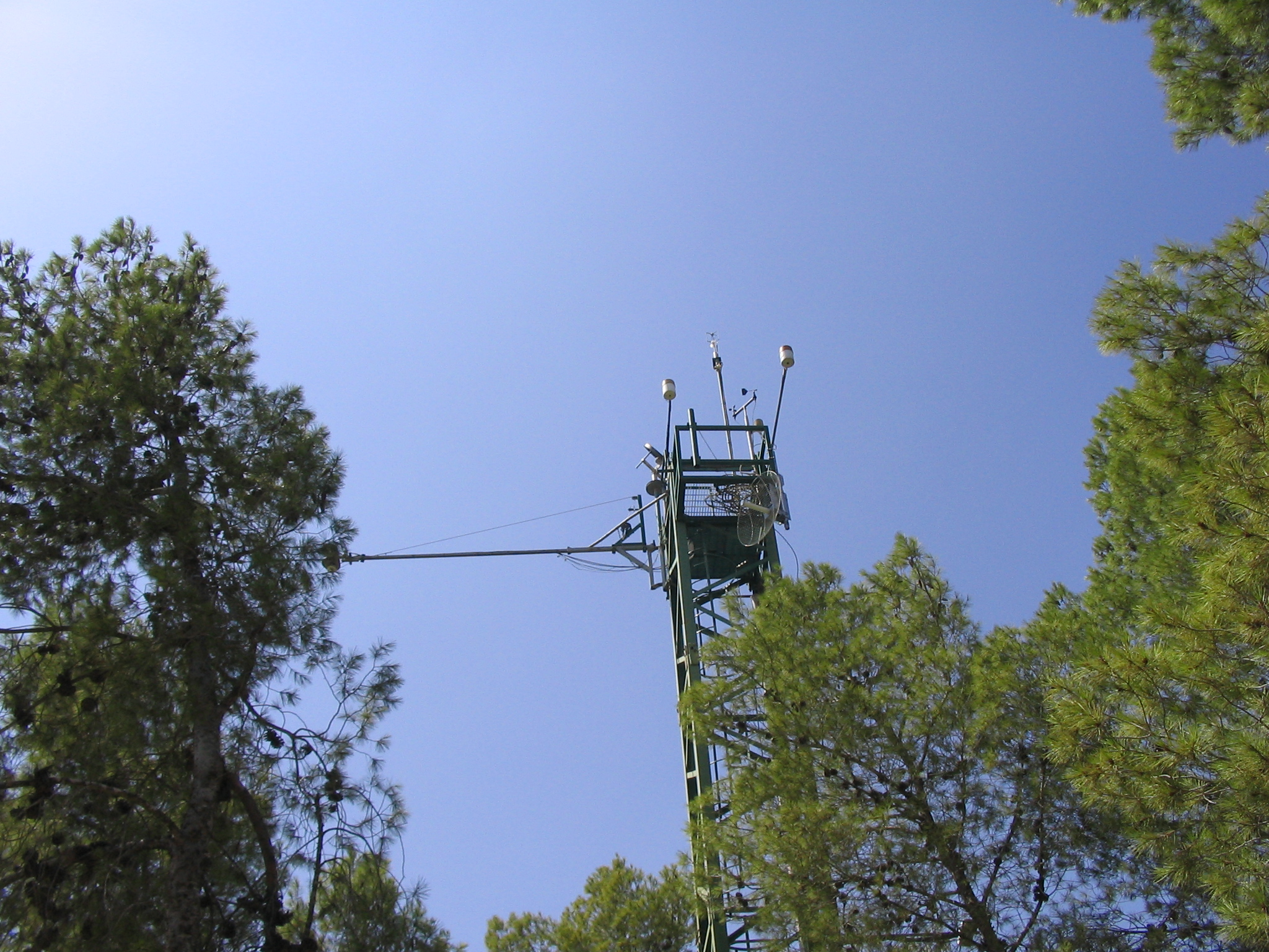 A metorological tower and research station in Yatir Forest, Yatir District, on the southern slopes of Mount Hebron, southern Israel. Photograph taken by me, on 20/09/2006.